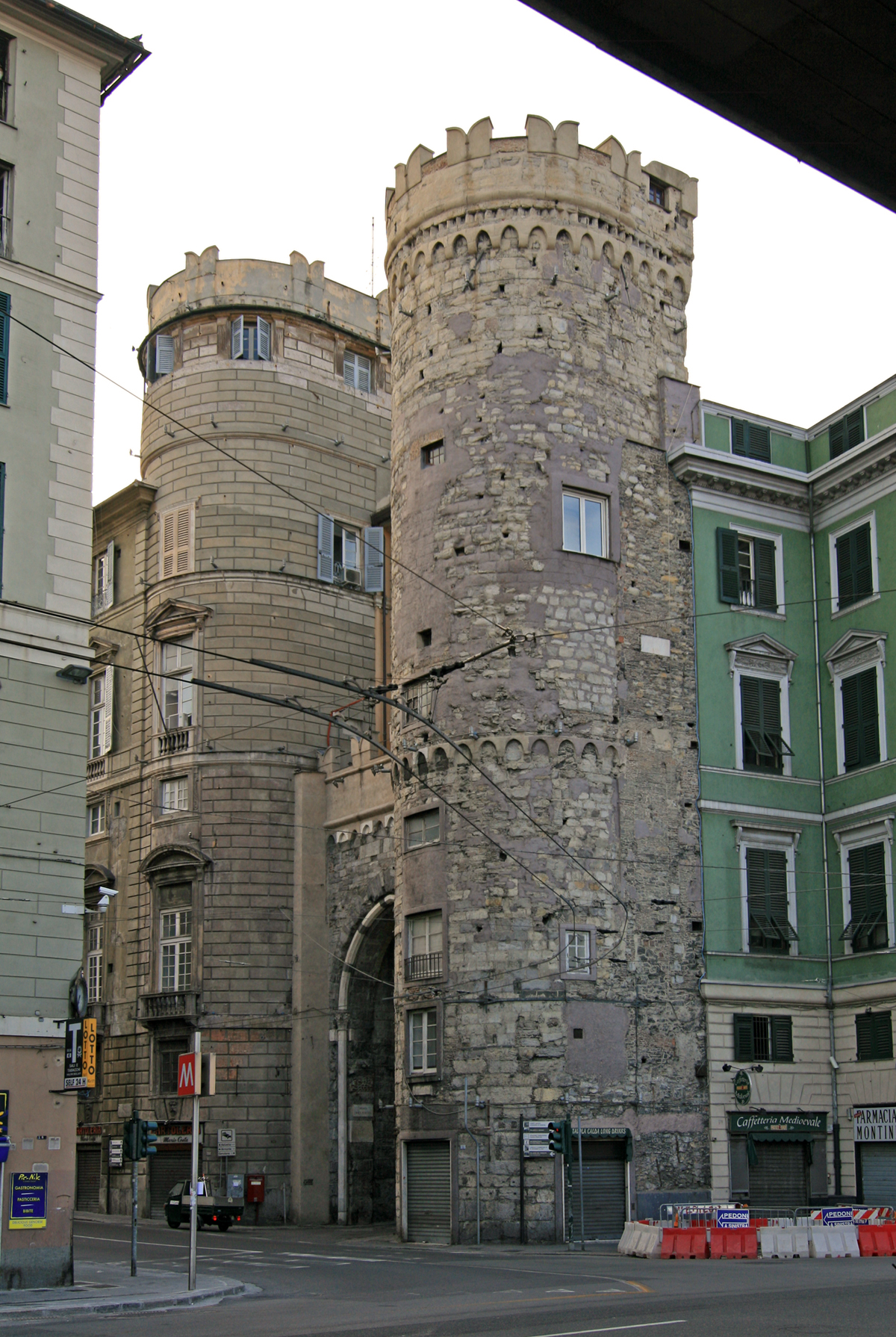 Porta dei Vacca, Genoa, Italy.